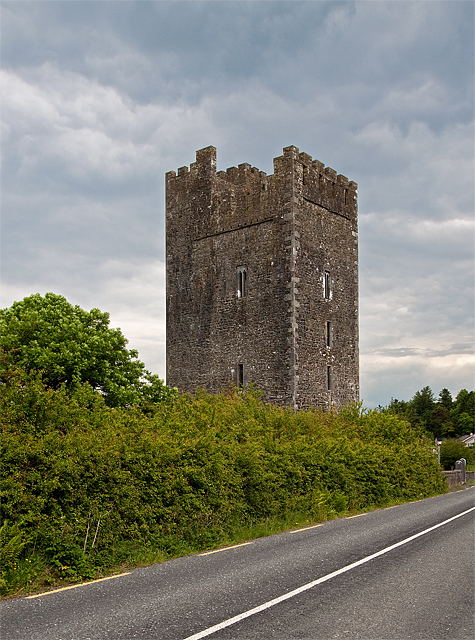 Castles of Munster: Glenquin, Limerick. This tower house was probably built in the early 16c by the O'Hallinans, who were almost decimated later by the O'Briens. After it was surrendered to the English in 1569, it was granted first to Captain Hungerford, and in 1599 to Captain Collum of Glengoume.It was restored during the 1840s, and more recently when it was designated a state monument.